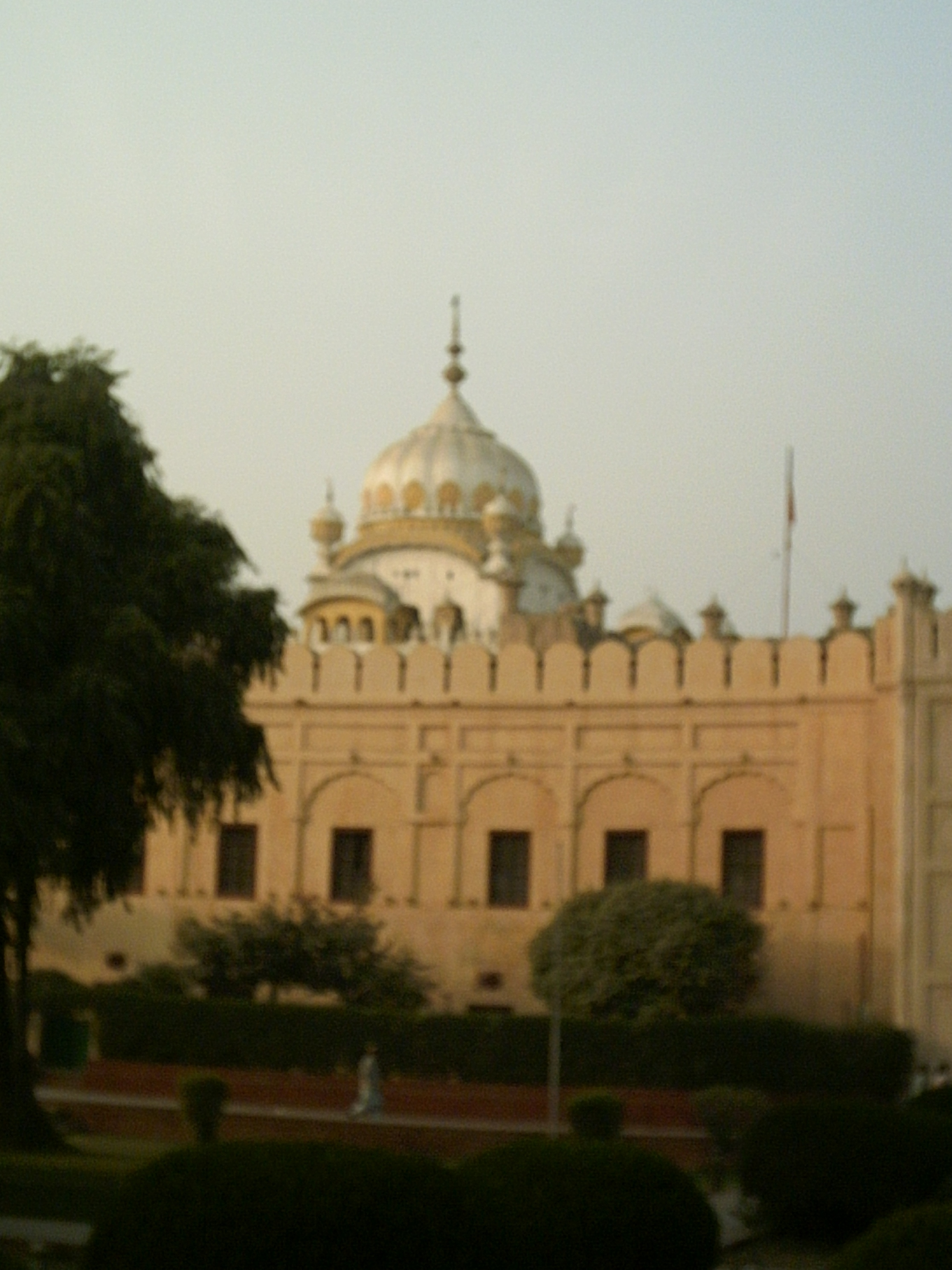 A view of Ranjit singh tomb